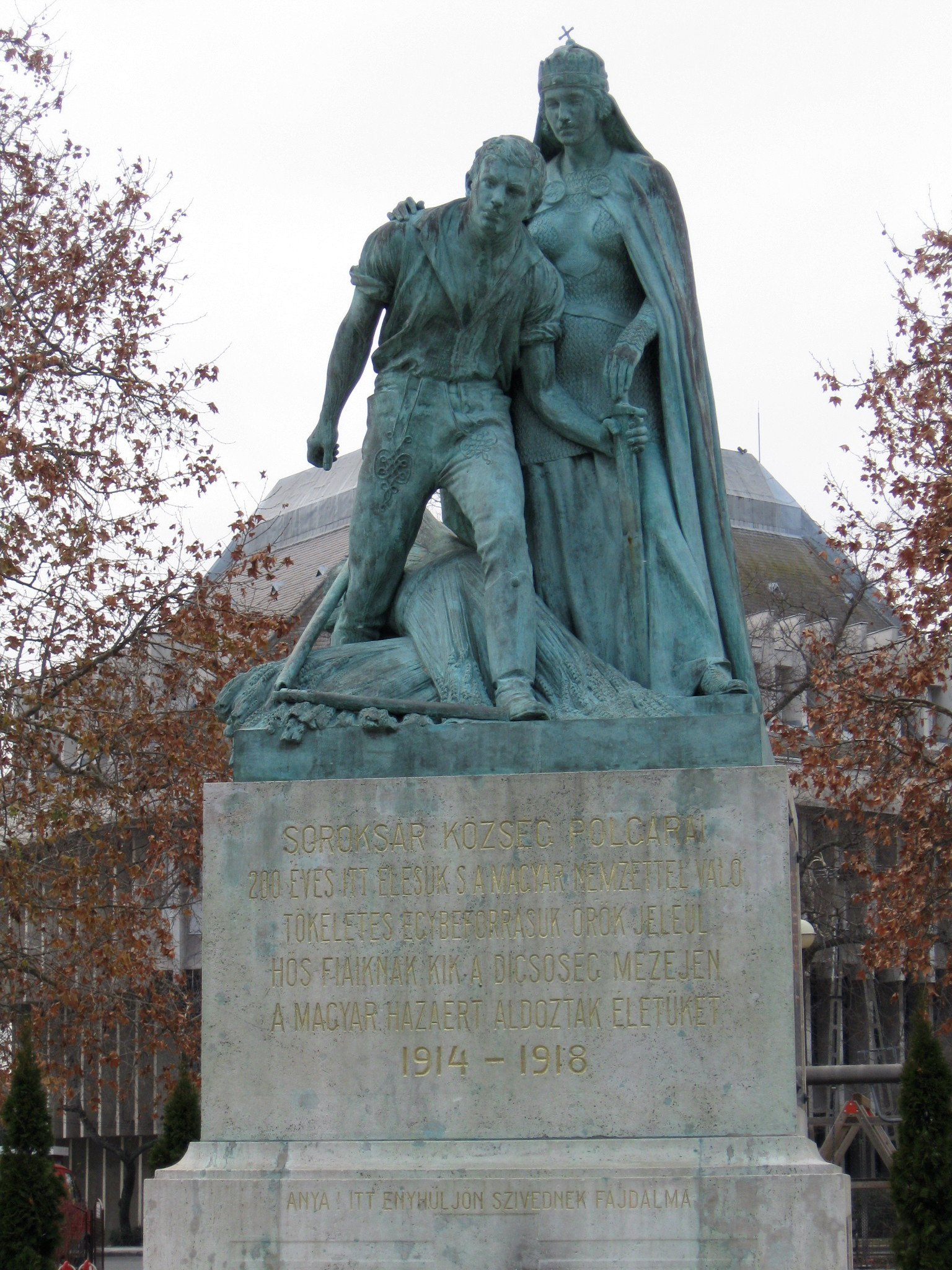 World War I Memorial Sculpture- Budapest, XXIII. distr., Soroksár, Hősök tere Sculptor: István Szentgyörgyi (1927)